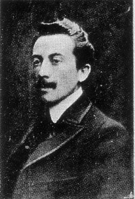 Portrait of Efisio Giglio-Tos.